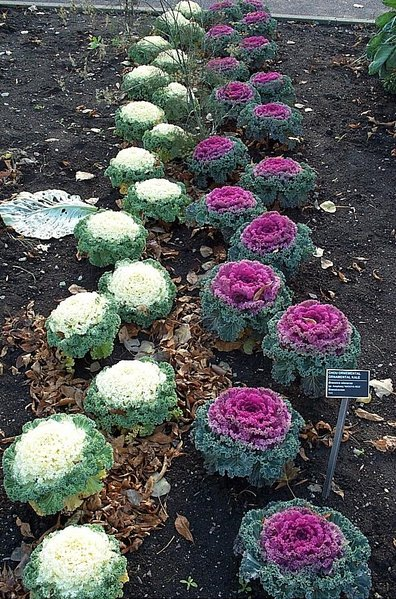 kale at the Jardin botanique de Montréal. Despite of the image name there is no flower at all!